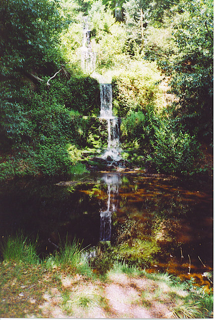 Waterfall, Upper Tilling Valley. A rare waterfall, ornamental, with a pool below it, just a mile north of the Tilling Springs.